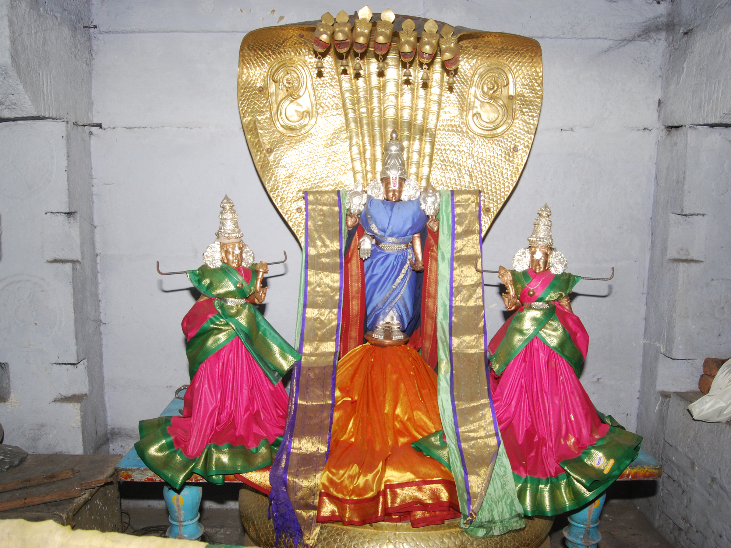 Utasav Vigraham